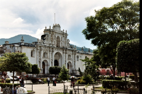 Church in Antigua Guatemala